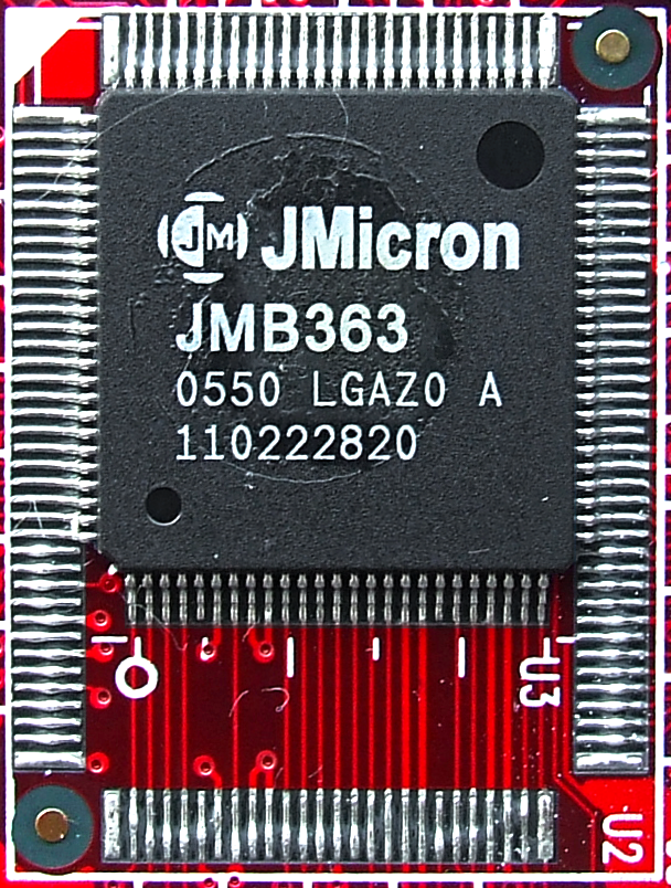 JMicron JMB363 PCIe-to-PATA/SATA RAID controller. It is compliant with PCIe 1.0a @ x1 and provides two AHCI-enabled SATA 3 Gbit/s ports as well as one UDMA/100 channel. This series (JMB361/363/368) holds the distinction of being the only family of PATA controllers with native PCIe, i.e. without the use of an integrated or separate bridge chip.